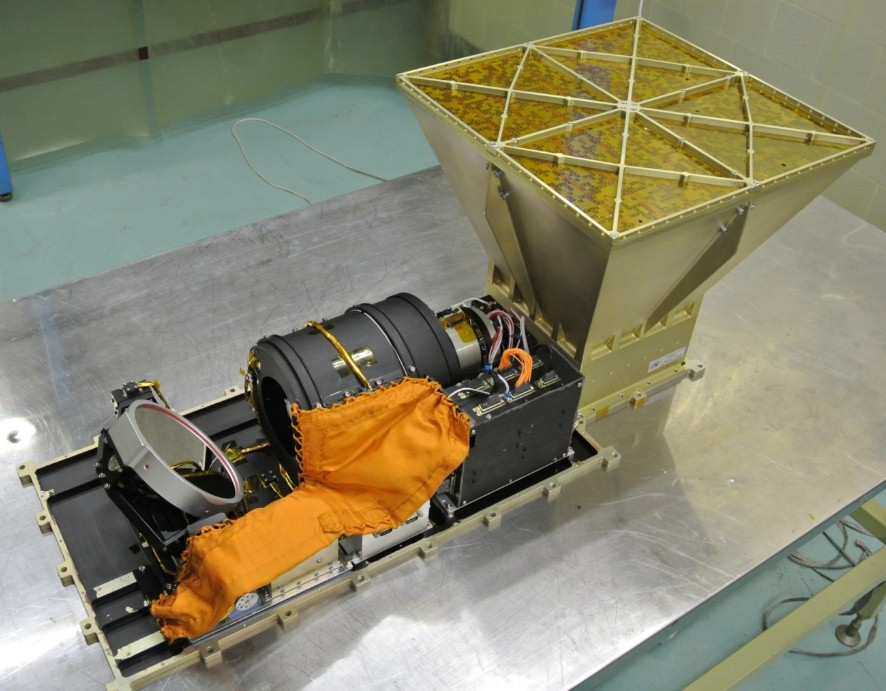 Flight model of UFFO-Pathfinder (image by UFFO collaboration)